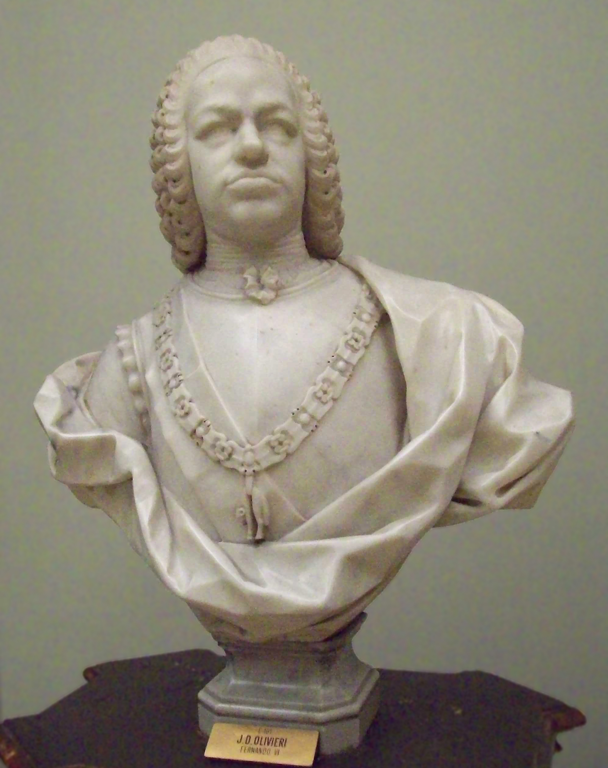 Depicted person: Ferdinand VI of Spain (1713–1759).